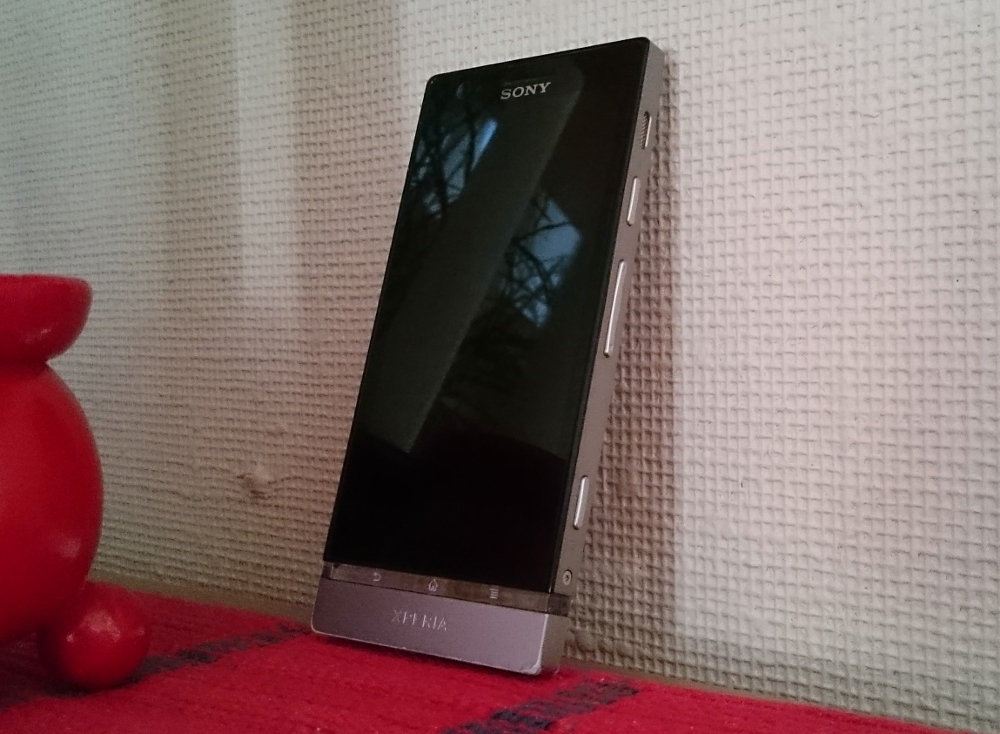 Sony Xperia P, Silver